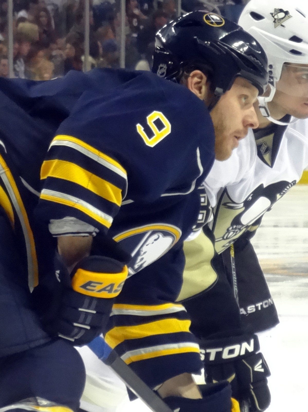 Buffalo Sabres forward Steve Ott skates against the Pittsburgh Penguins, February 17, 2013 at First Niagara Center in Buffalo, NY.